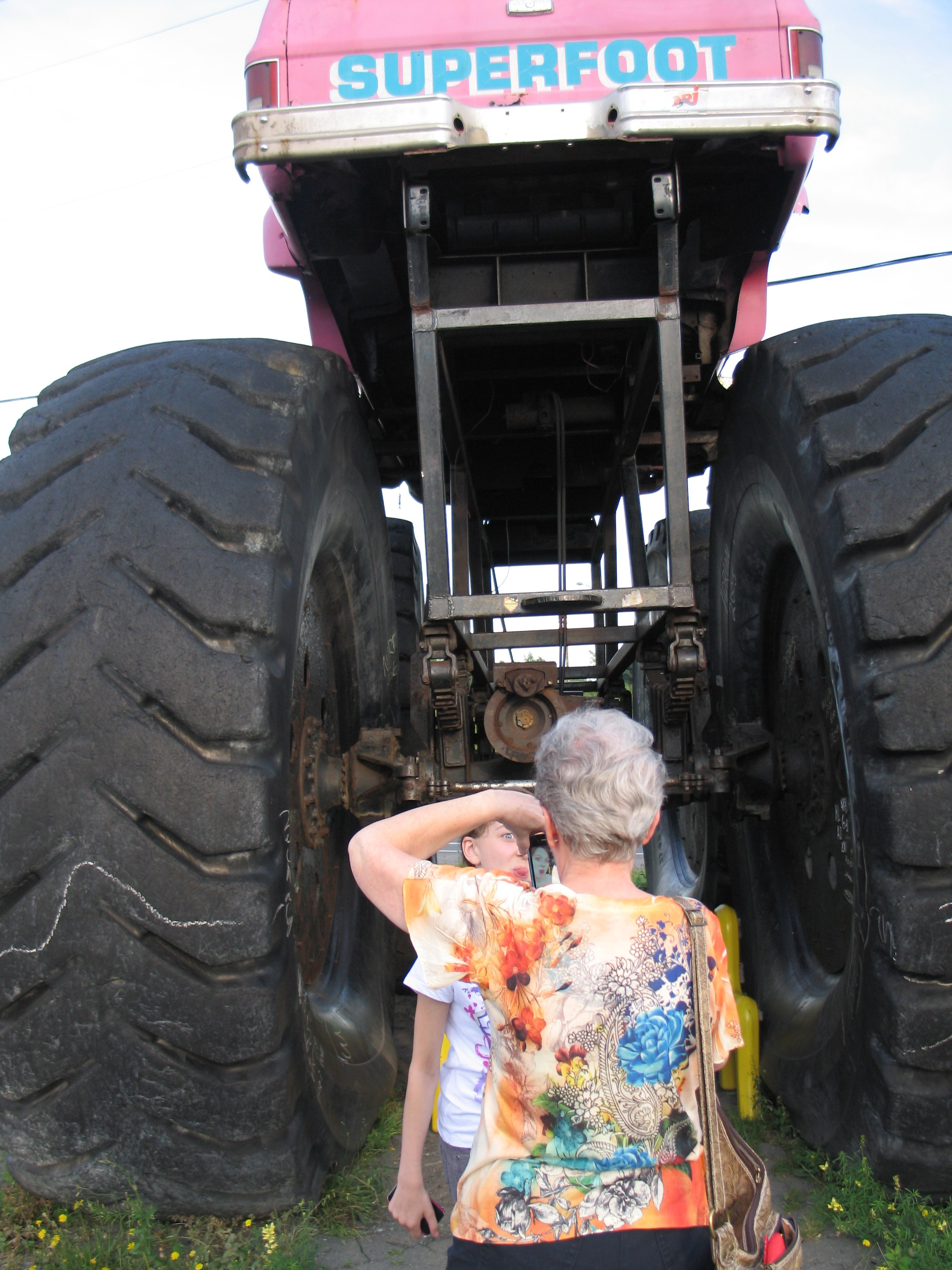 Two tourists photographed in front of Superfoot, one of the monster trucks displayed in front of Le Madrid restaurant, a few weeks before the restaurant closed down in August 2011.